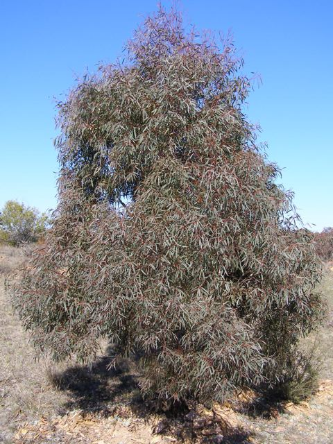 Eucalyptus nicholii, Taken by D.M. Vernon, 2006, Near Canberra, Australia